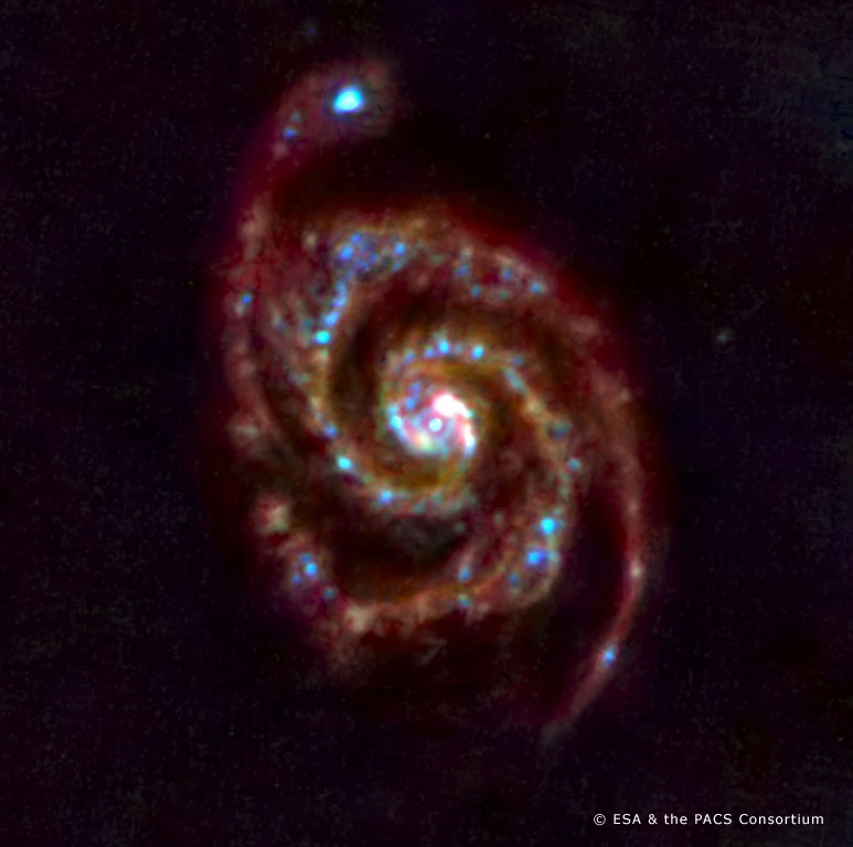 Three-color far-infrared image of M51, the Whirlpool Galaxy. Red, green and blue correspond to the 160-micron, 100-micron and 70-micron wavelength bands of the Herschel’s Photoconductor Array Camera and Spectrometer, PACS instruments. Glowing light from clouds of dust and gas around and between the stars is visible clearly. These clouds are a reservoir of raw material for ongoing star formation in this galaxy. Blue indicates regions of warm dust that is heated by young stars, while the colder dust shows up in red.